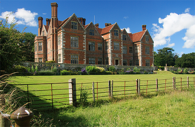 Southeast front of Breamore House, Hampshire